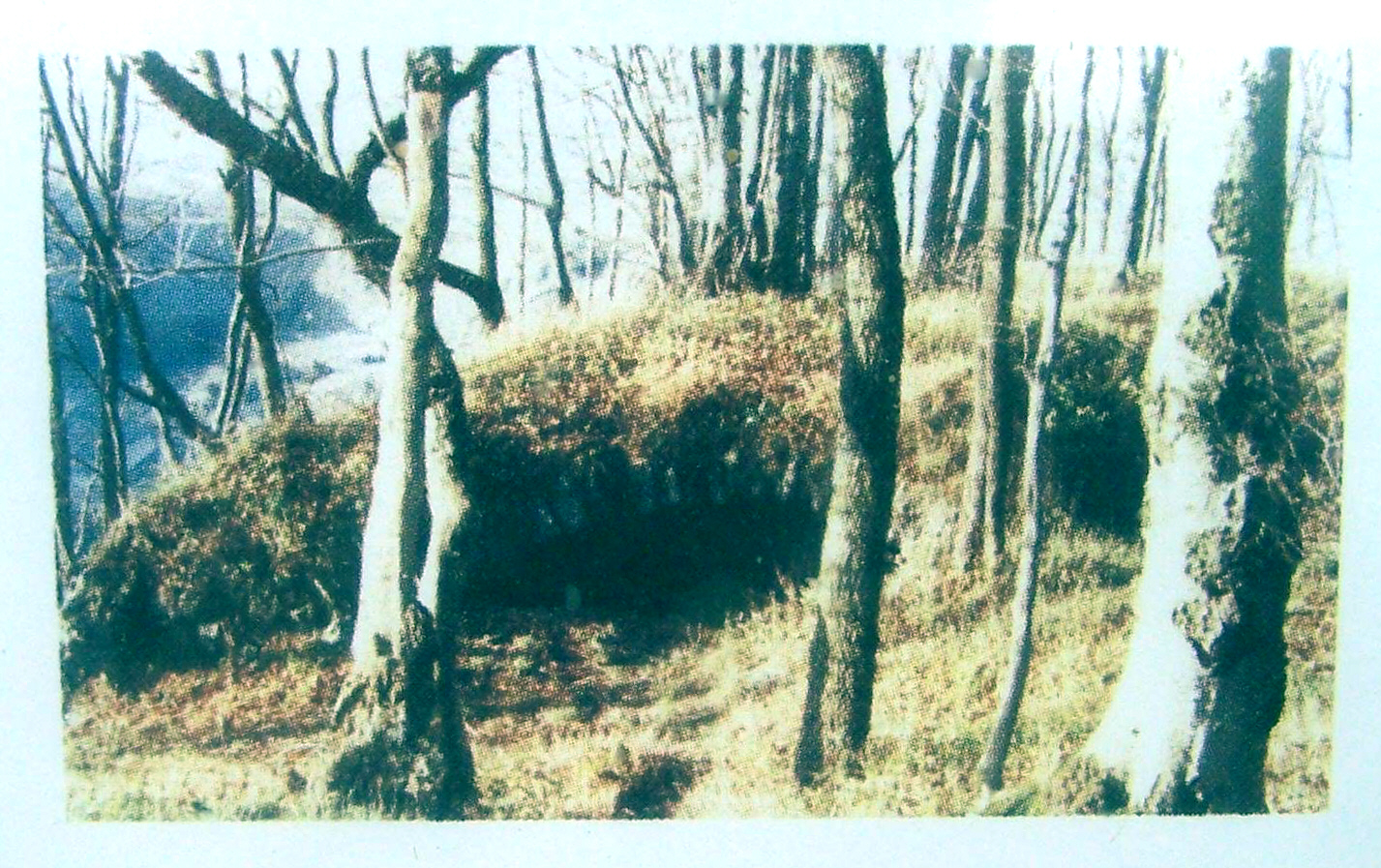 Picture at the information point - ruines of a building of Fischberg castle (1994).